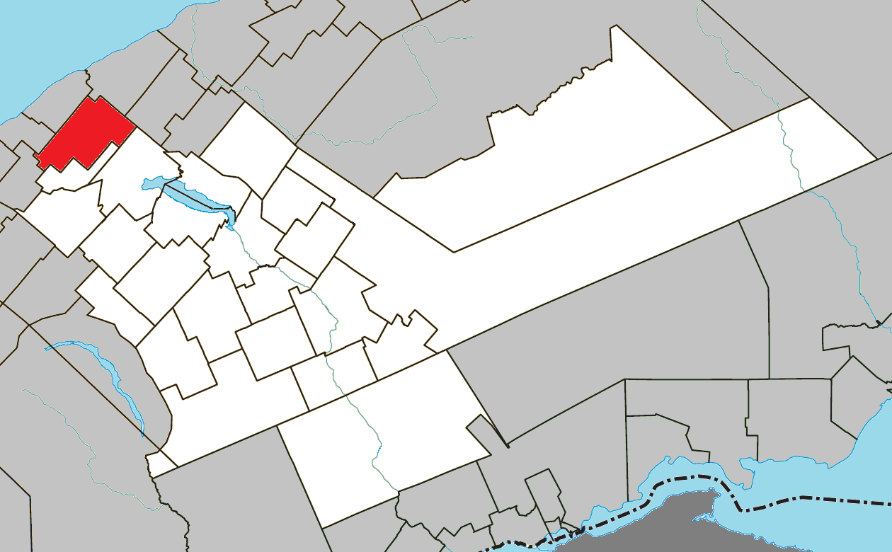 Location of Saint-Damase, Quebec within La Matapédia Regional County Municipality.